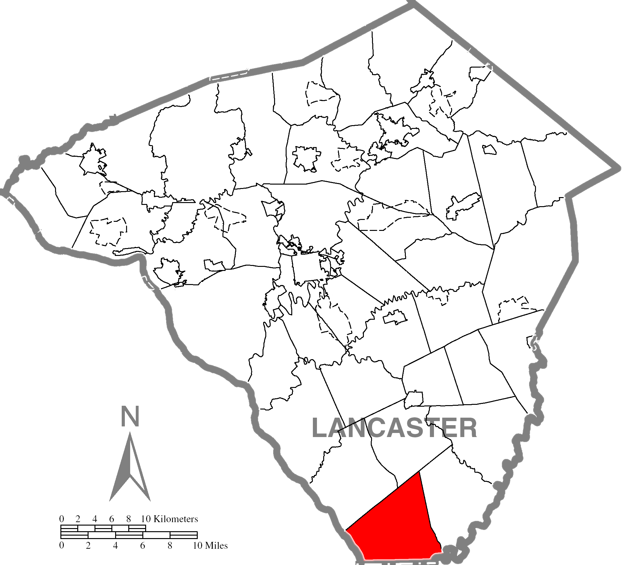 Highlighted Lancaster County map of Fulton Township.